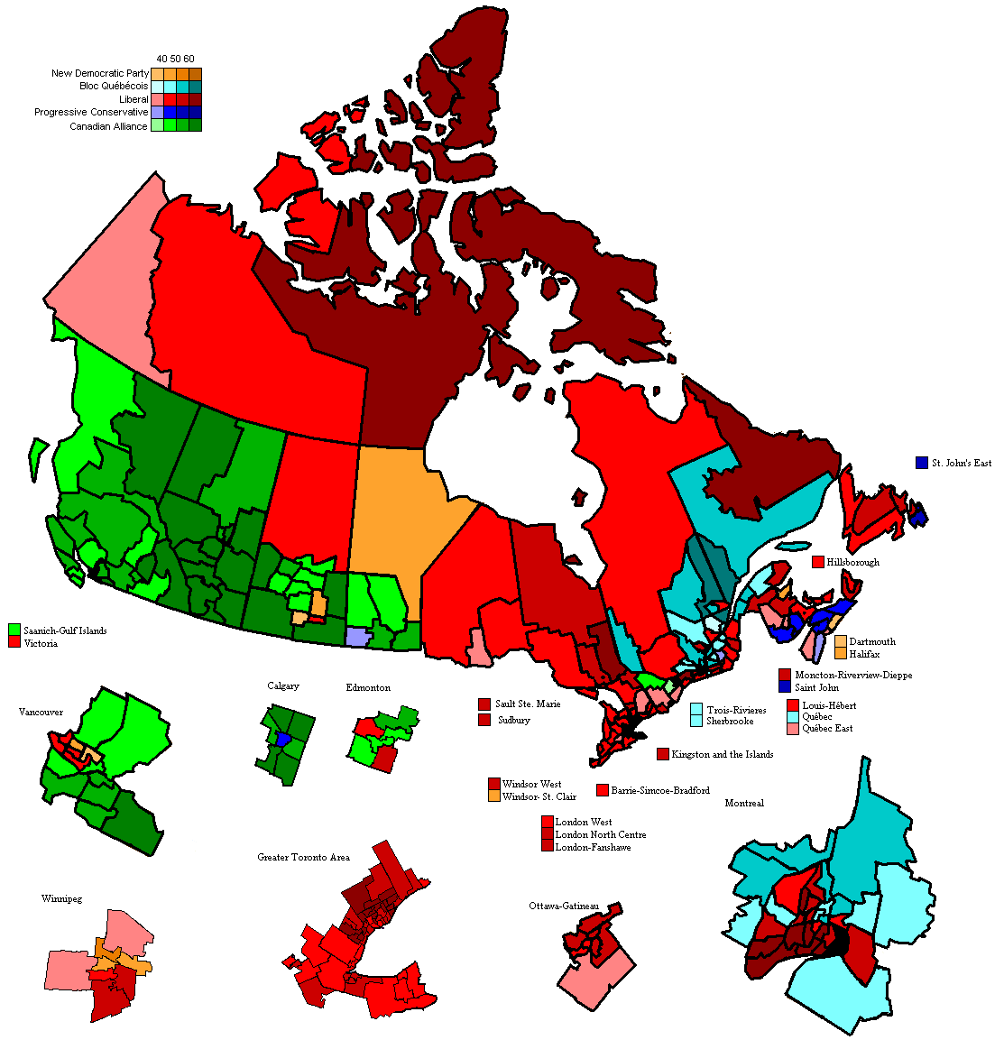 Map of Canada, showing the results of the 2000 election by riding.